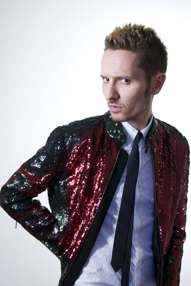 Model wearing a Jean-Paul Gaultier jacket.